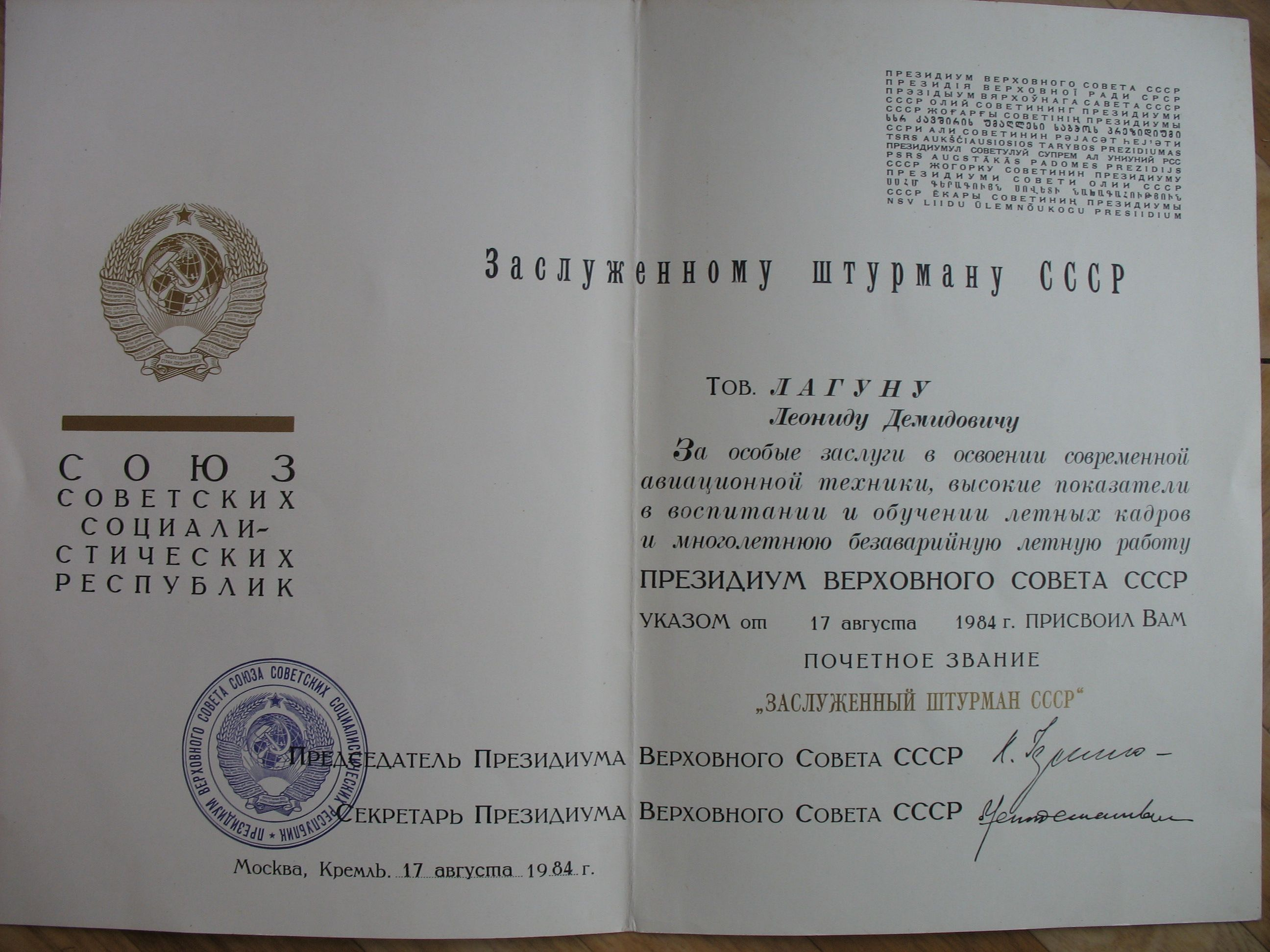 This card says the person is an Honoured Test Navigator of the USSR. The seal is the USSR coat of arms and the repeating (up to grammatical cases) text reads “Presidium of the Supreme Soviet of the Soviet Union”. The text shaped as a rectangle shows the name of the USSR in several languages spoken in the Presidium.